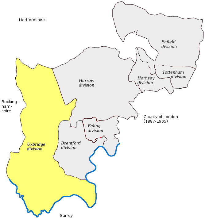 Unreduced UK House of Common seat Uxbridge created in 1885, before major reduction in 1918 and subsequent significant reductions.